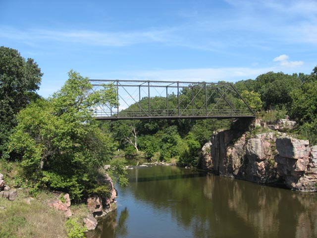 Bridge in Palisades State Park, South Dakota, USA.